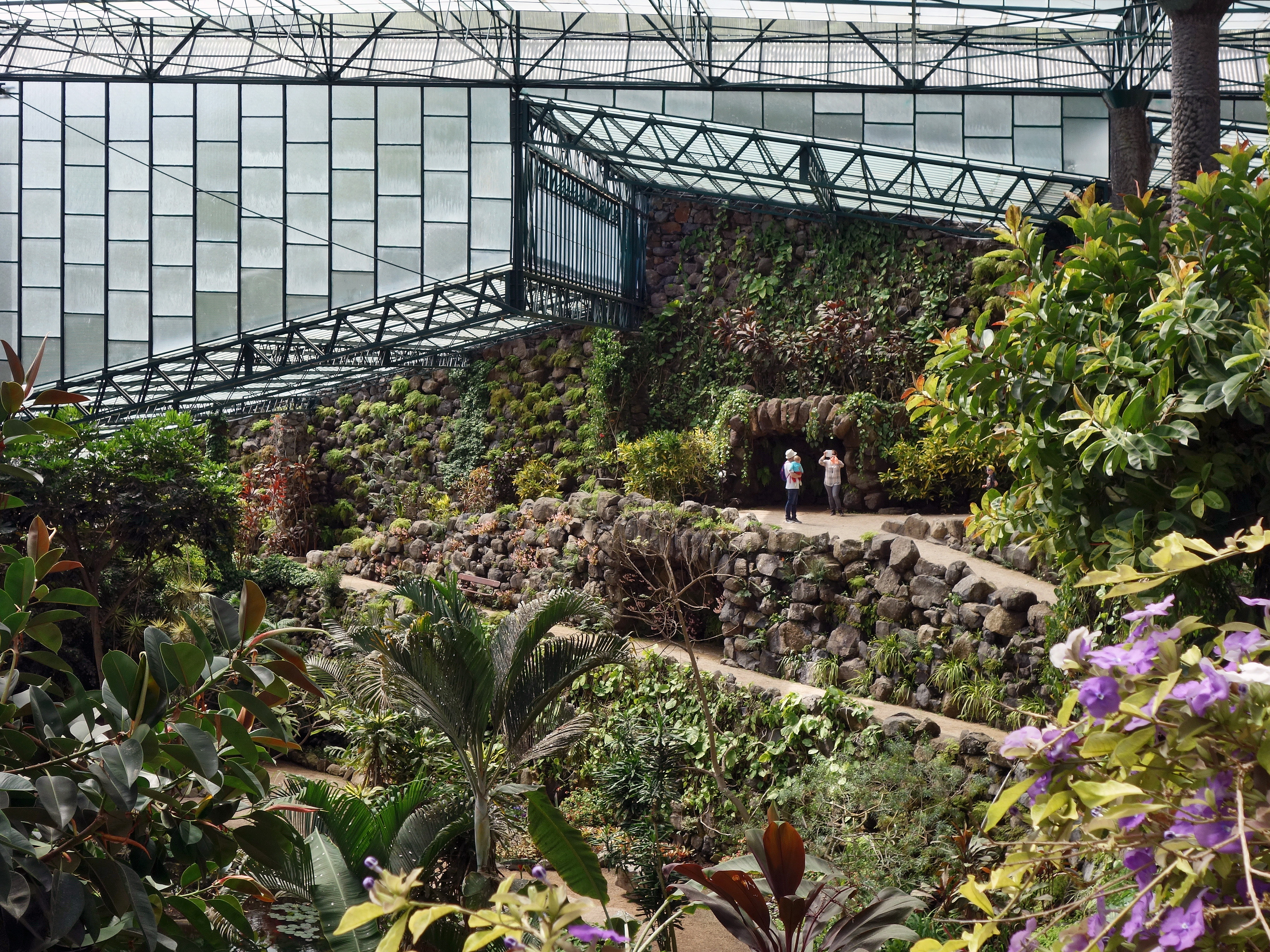 Estufa Fria de Lisboa: Estufa Quente (Hot Greenhaus)